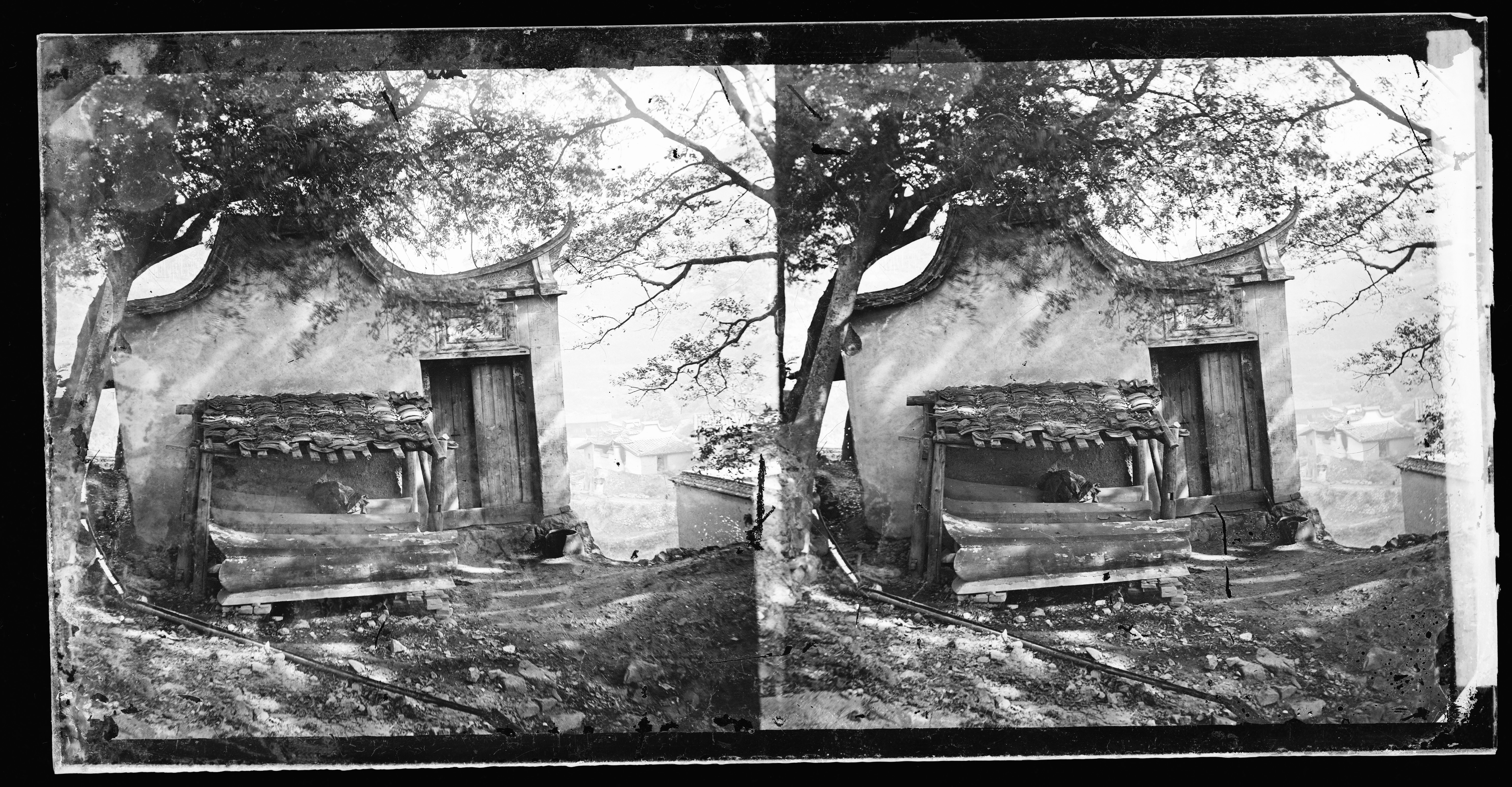 Foochow, Fukien province, China. Photograph by John Thomson, 1871. Iconographic Collections Keywords: J. Thomson